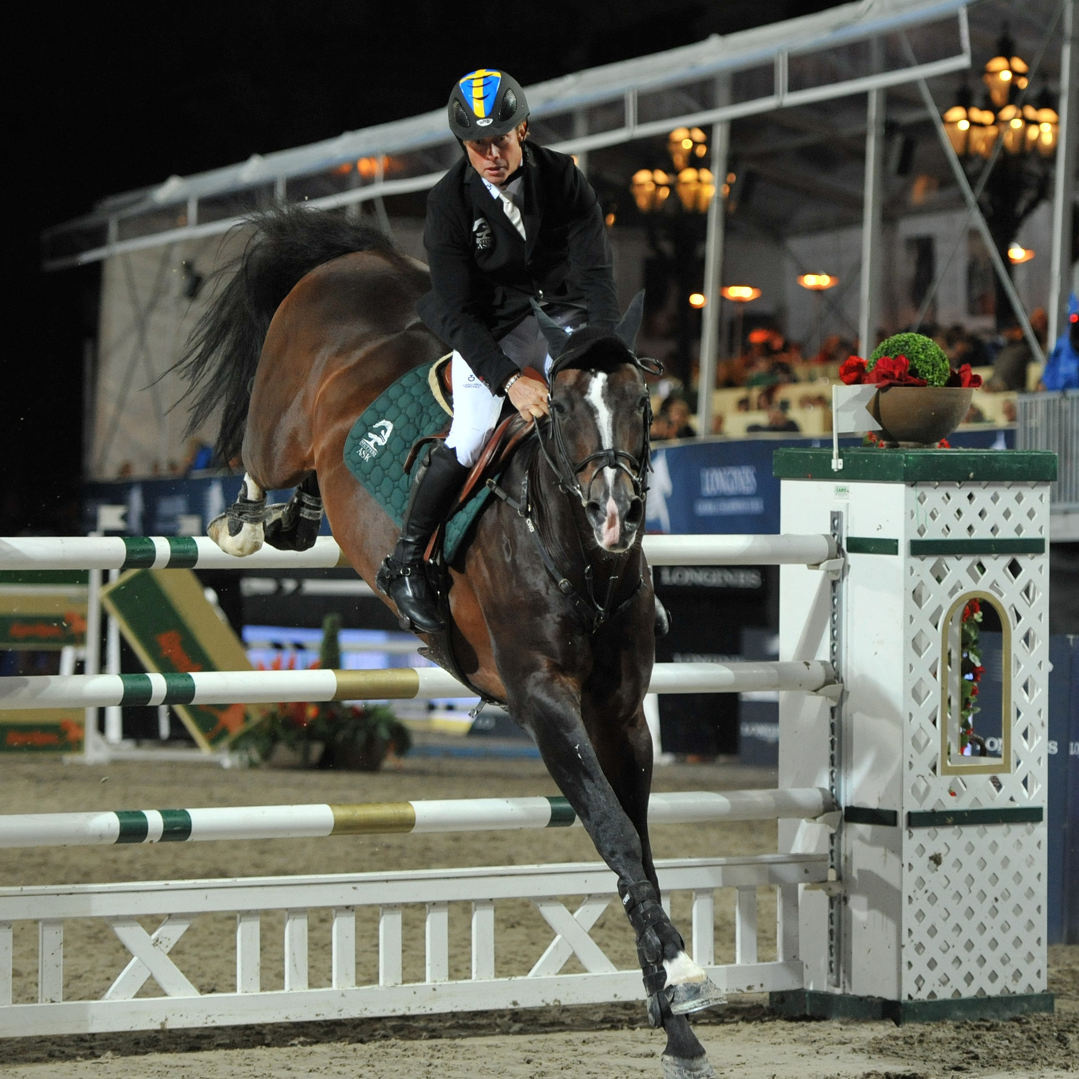 Vienna Masters am 21. September 2013 Longines Global Champions Tour Rolf-Göran Bengtsson (SWE) auf Casall ASK